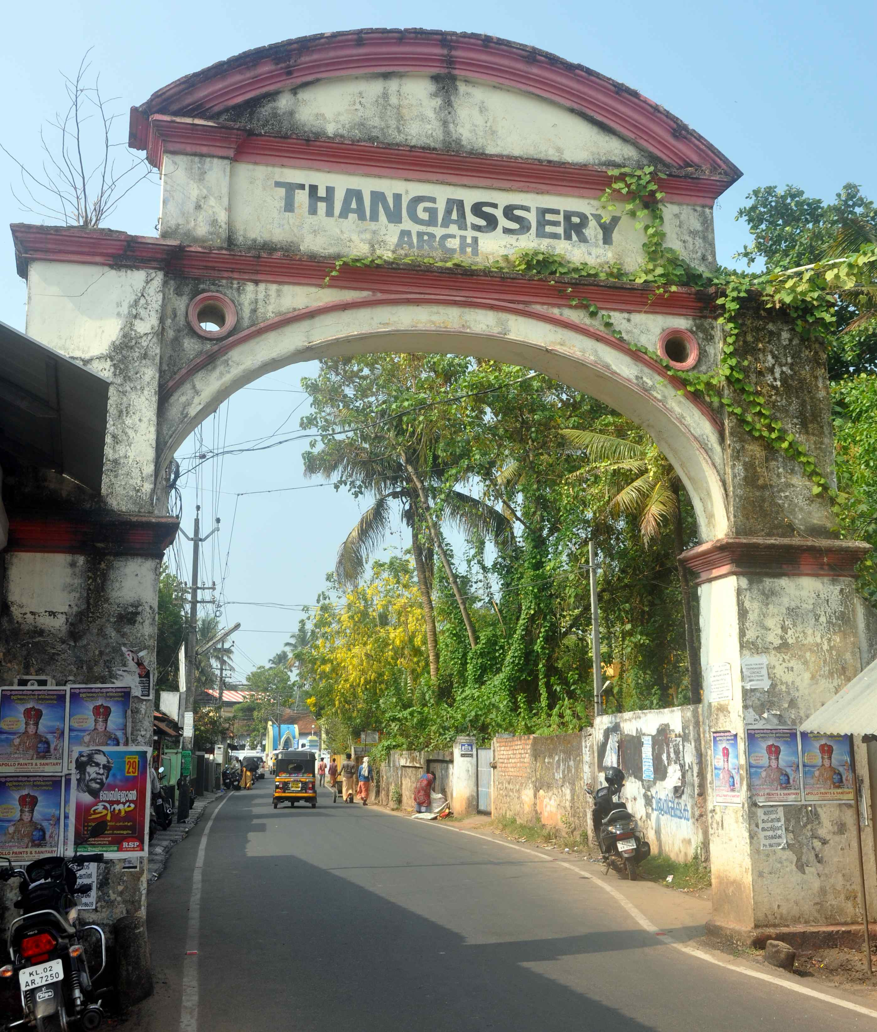 Thankasery arch, Kollam